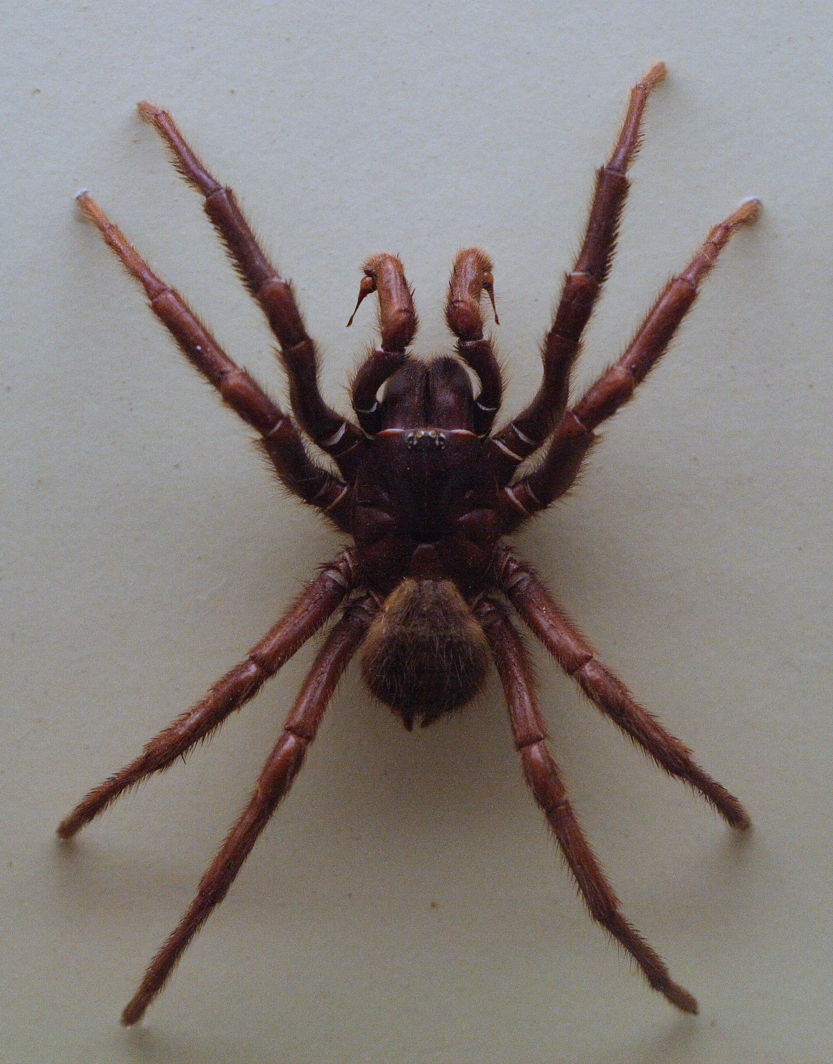 Specimen in the Australian Museum spider display.